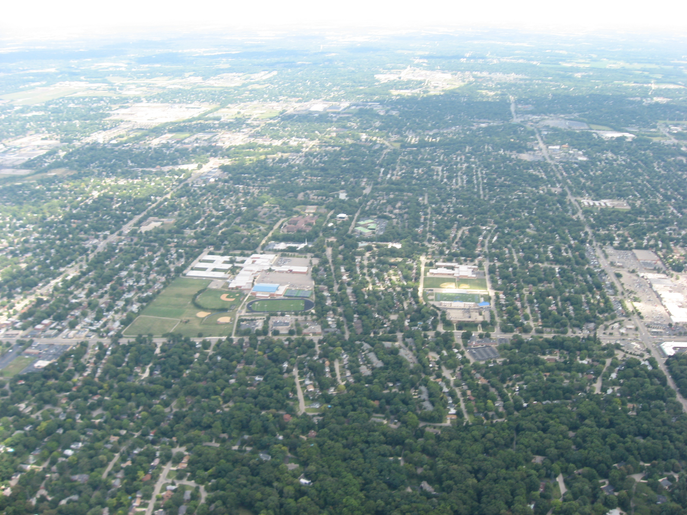 Aerial view of Kettering Fairmont High School in Kettering, a city in Montgomery County, Ohio, United States. Far Hills Avenue (State Route 48) is the road running from side to side in the middle of the picture. Picture taken from a Diamond Eclipse light airplane at an altitude of 3,500 feet MSL and a bearing of approximately 95º.